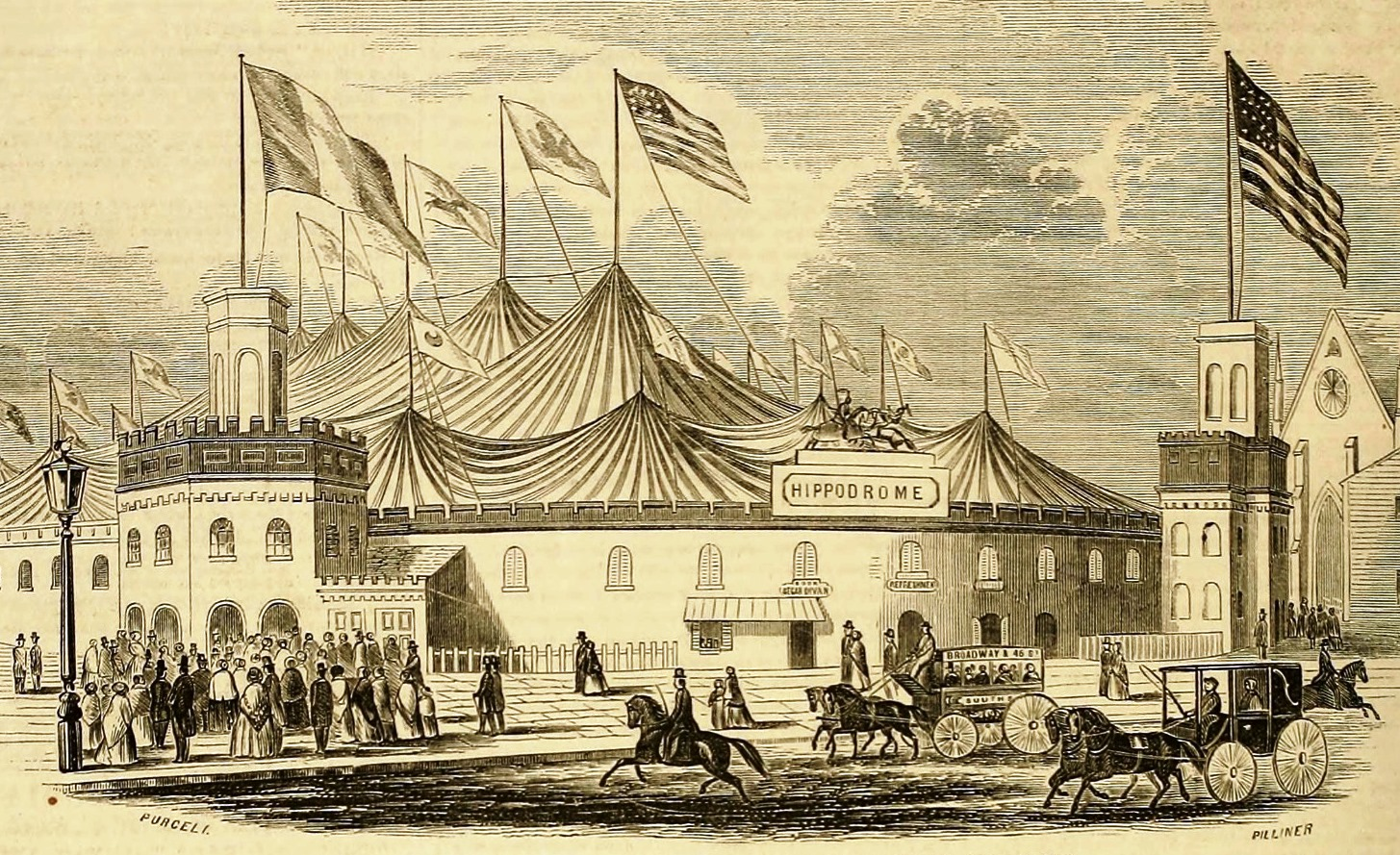 Occupied the entire west blockfront of Fifth Avenue from 23rd Street to 24th Street.